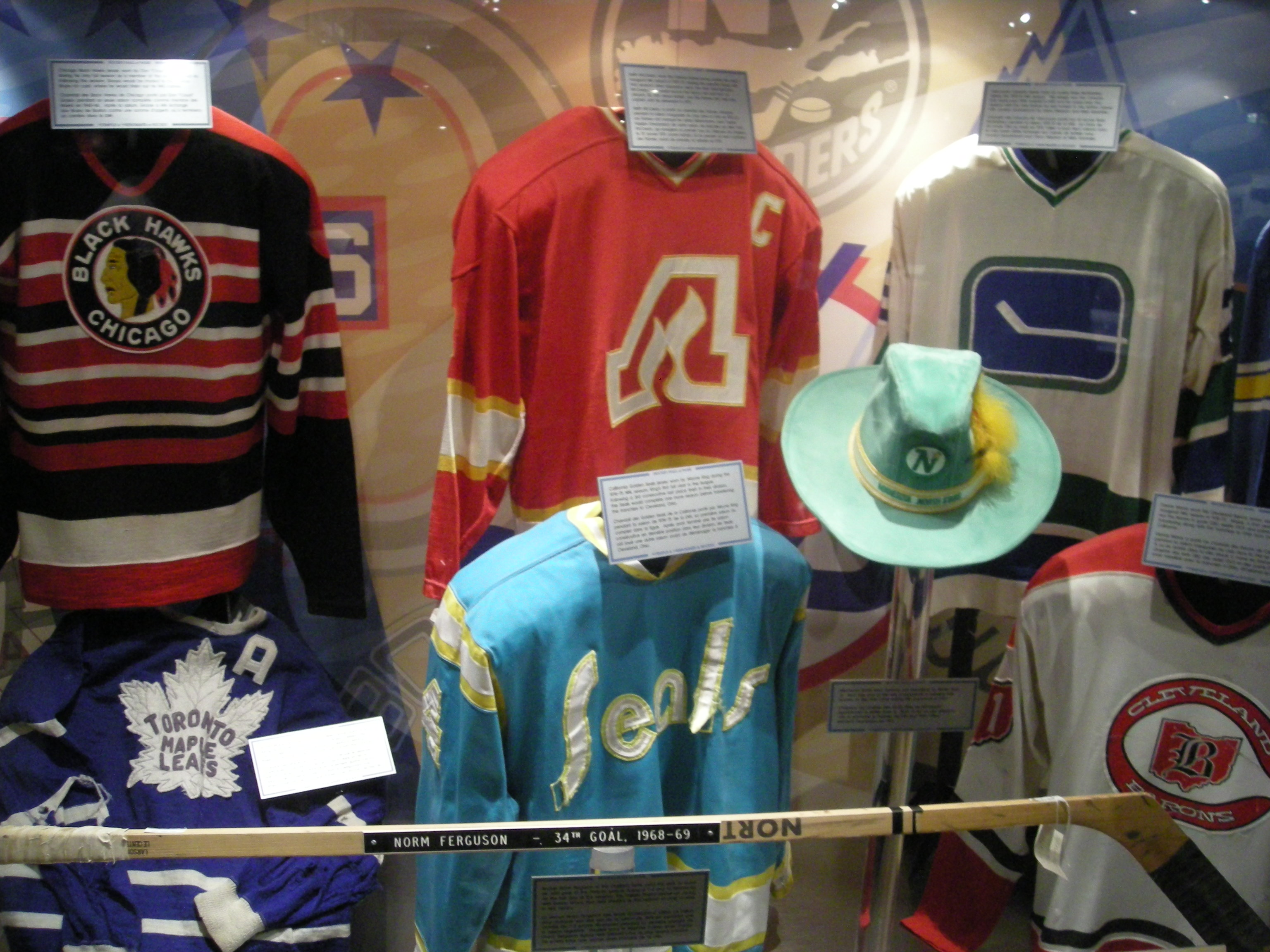 A jersey case at the Hockey Hall of Fame in Toronto, Ontario (Canada).